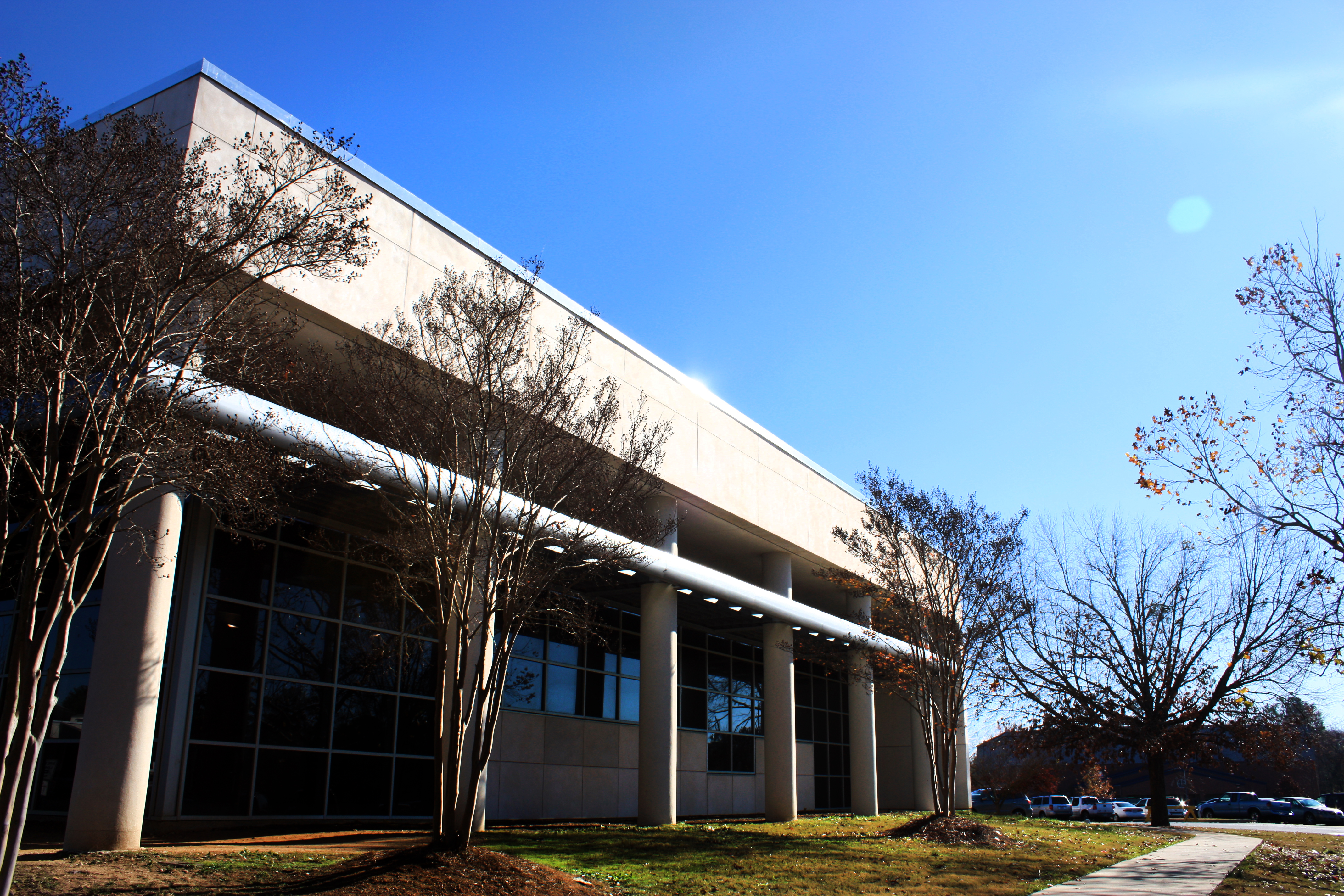 Facade of AHS Library of 800 building